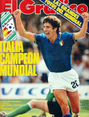 Paolo Rossi celebrating a goal v Germany at the final.